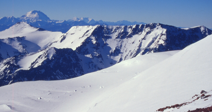 Cerro de la Mesa seen from the slopes of Mercedario. The peak in the distance is Aconcagua.